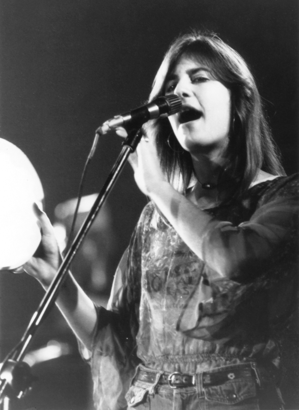 Marcy Levy singing on tour with Eric Clapton - There's One In Every Crowd Tour, Swing Auditorium, San Bernardino, CA - Aug. 15, 1975: Tri-X_print scan - Frame 10